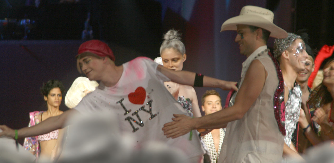 Opening show of the Life Ball 2007 at the Rathausplatz in Vienna, Austria. Richie Rich (left) and Traver Rains (right) of the fashion company Heatherette.